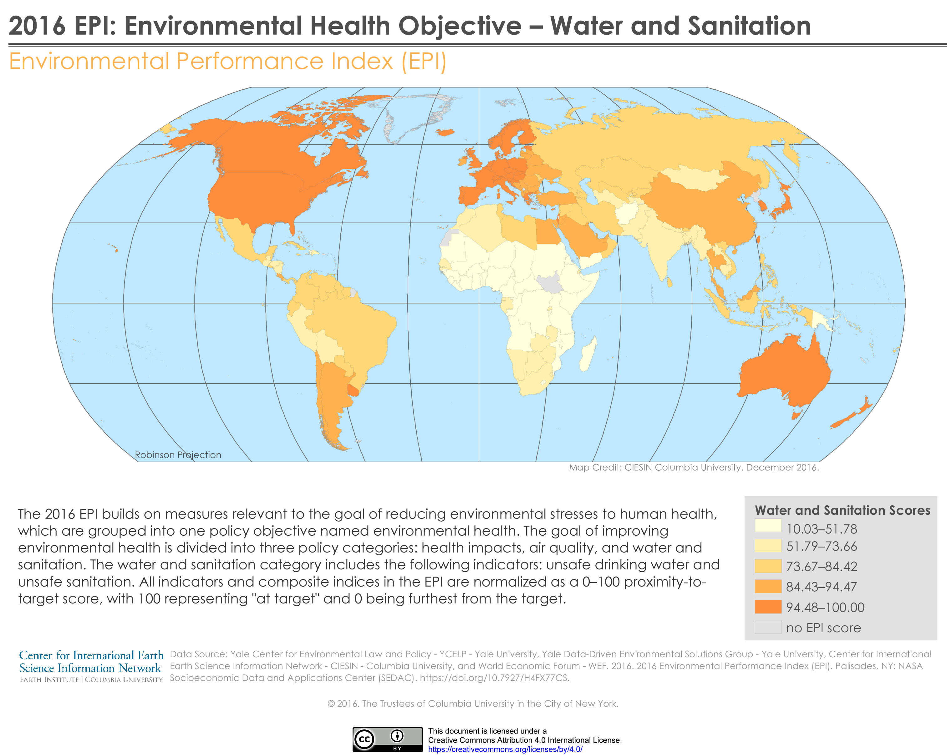 The 2016 EPI builds on measures relevant to the goal of reducing environmental stresses to human health, which are grouped into one policy objective named environmental health. The goal of improving environmental health is divided into three policy categories: health impacts, air quality, and water and sanitation. The water and sanitation category includes the following indicators: unsafe drinking water and unsafe sanitation. All indicators and composite indices in the EPI are normalized as a 0–100 proximity-to-target score, with 100 representing "at target" and 0 being furthest from the target. The Environmental Performance Index, 2016 Release (1950-2016) data set is part of the Environmental Performance Index (EPI) collection. See more information at .